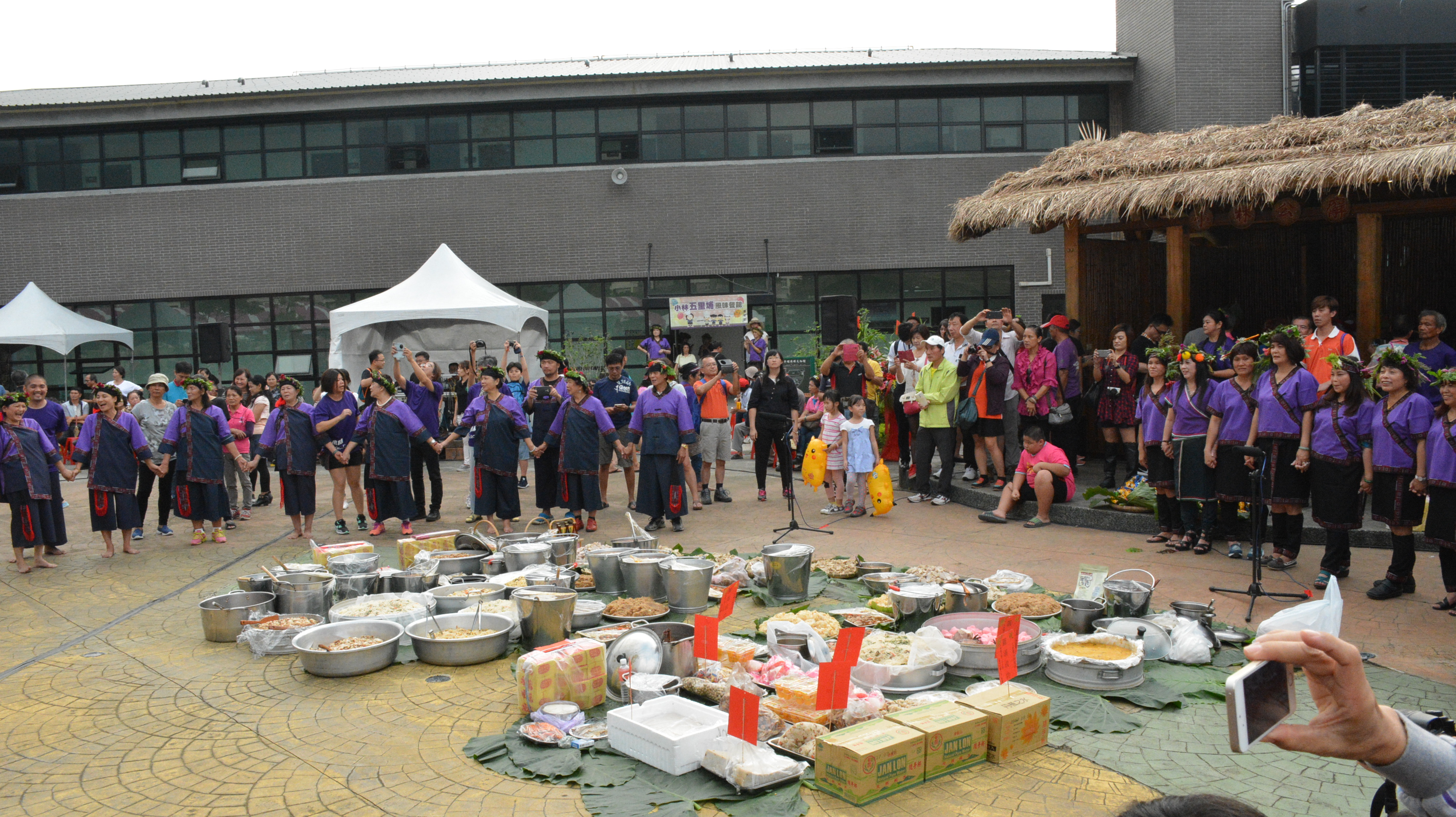 The indigenous Taivoan people in Xiaolin were placing the offerings to the ancestral spirits on the Night Ceremony. 中文（台灣）: 大武壠族人夜祭當日於公廨前獻祭品。